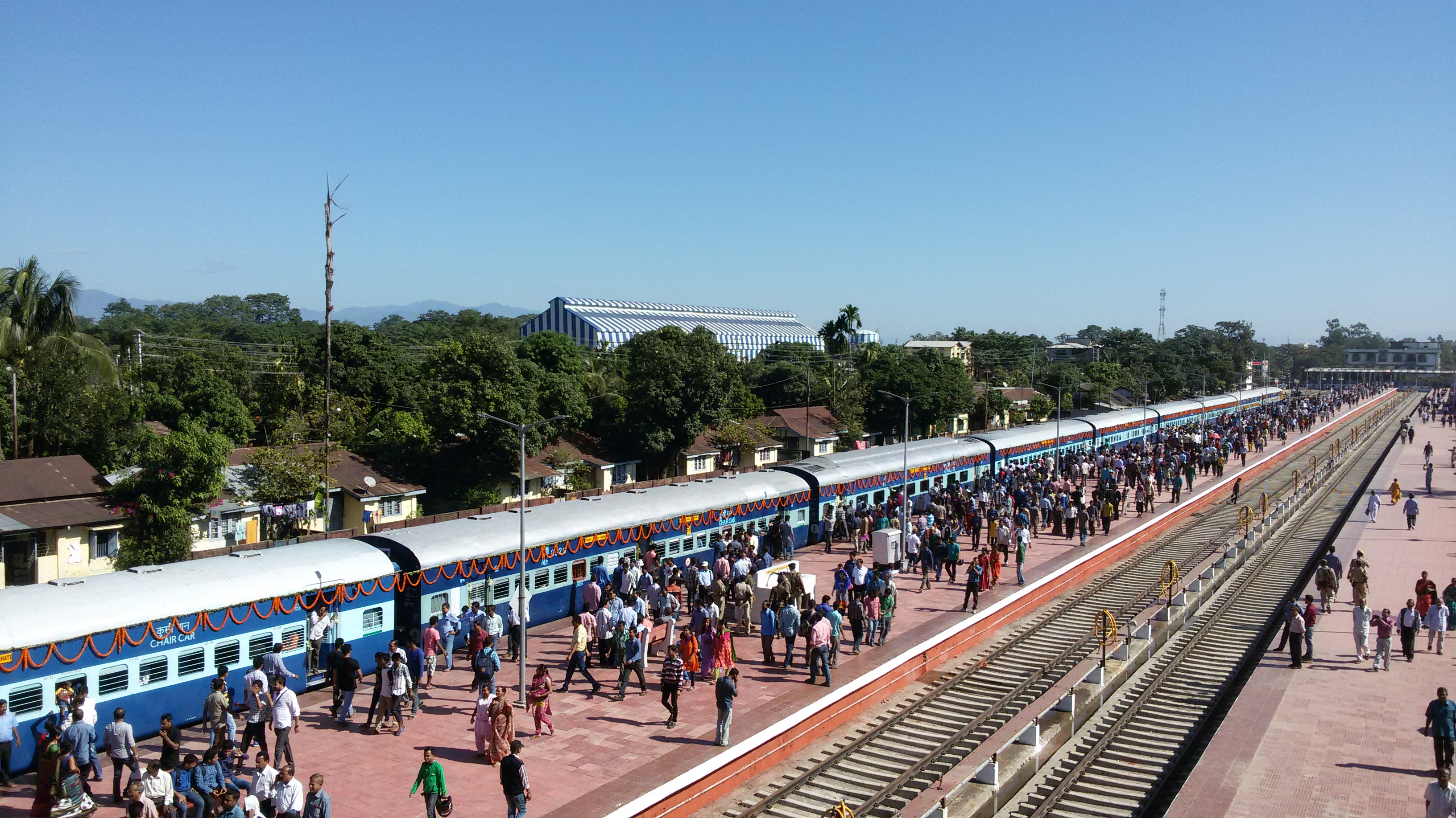 Picture of the 1st train from Silchar railway station.